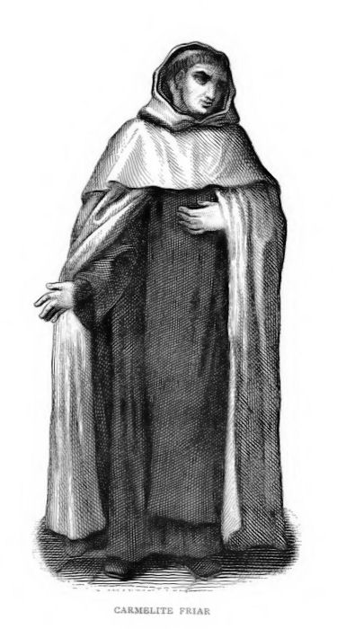 Published in London. Image of Carmelite Friar